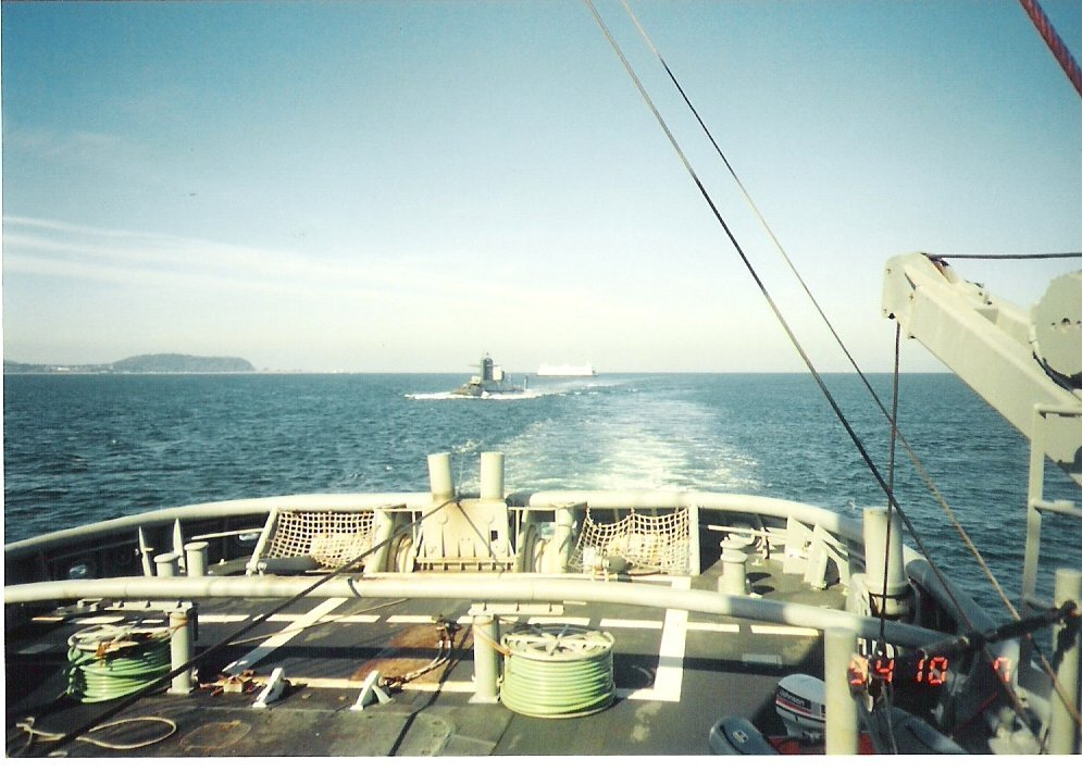 The decommissioned submarine ex-USS Woodrow Wilson SSBN-624 is towed through Admiralty Inlet by USS Salvor ARS-52 enroute to Bremerton, Washington, and her fate in the U.S. Navy's Ship and Submarine Recycling Program. Salvor's towing hawser can be seen fairlead by the starboard stern roller, the port Norman pin can be seen at right, and the aft towing bow can be seen in the foreground. Point Wilson, near Port Townsend, Washington is just visible in the distance.